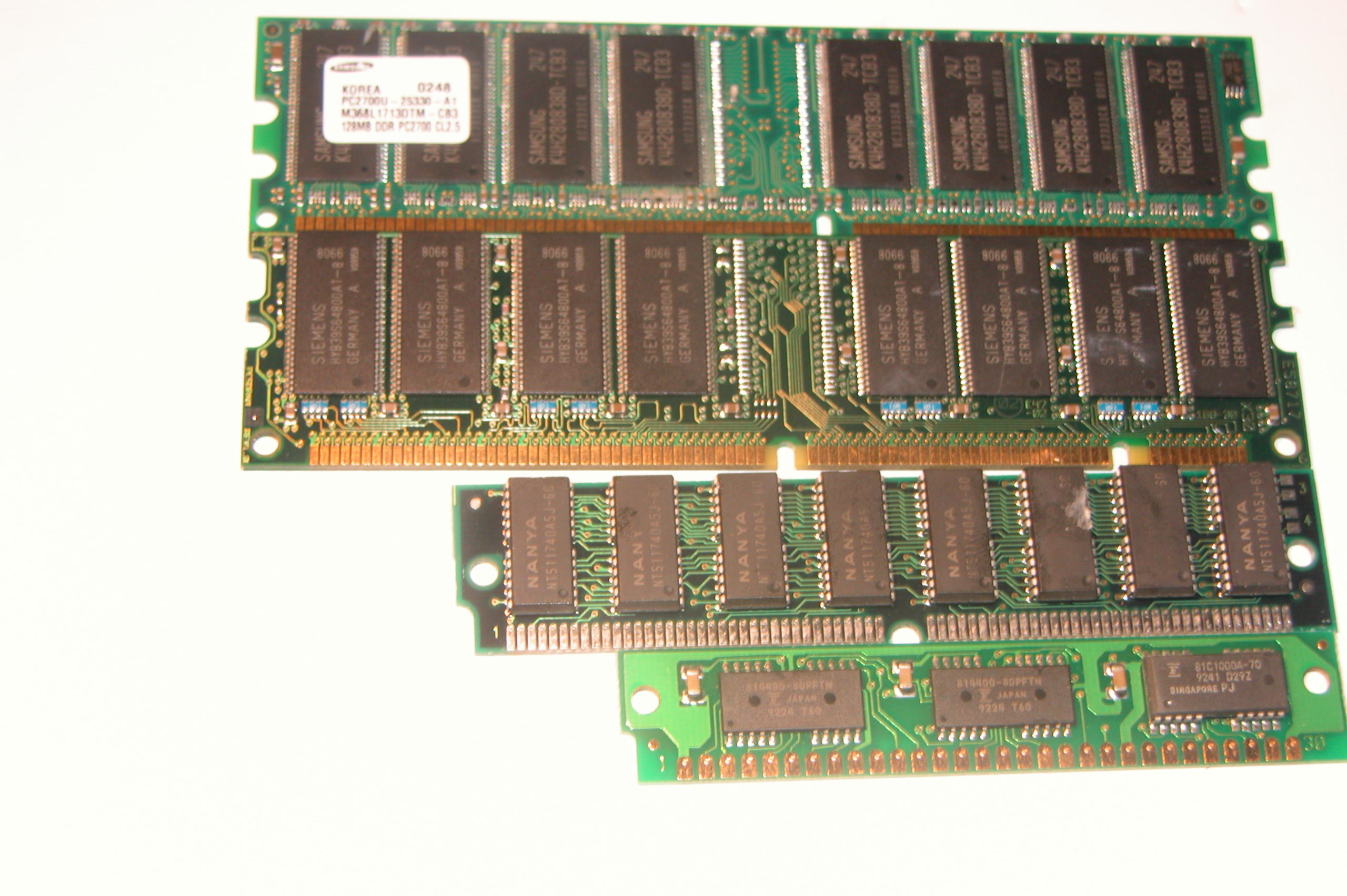 DDR-SD-RAM, SD-RAM and two older sorts of memory